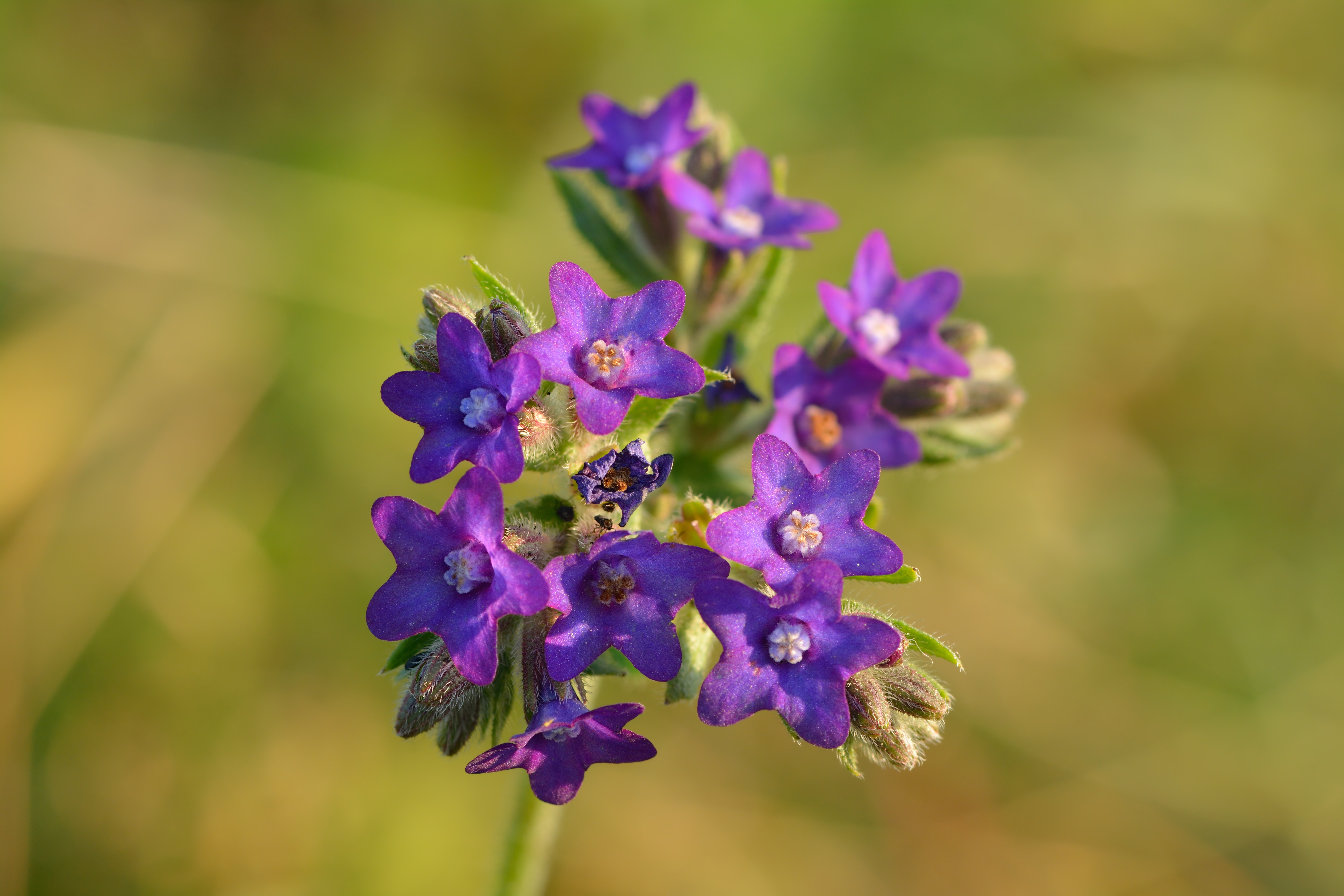 Anchusa officinalis - common bugloss in Keila, Northwestern Estonia